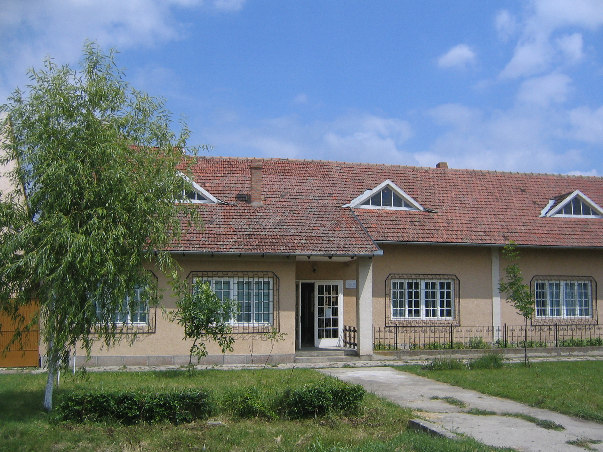 The Stefan Jäger Memorial House (Casa Memorială Stefan Jäger) Est. 1969, in 1996 it became the Stefan Jäger Museum. Stefan Jäger is the greatest Swabian painter from Banat, creating works that represent the moment of Swabian colonization of Banat melags, but also scenes from everyday life, the Banat landscape and traditions and holidays of the Swabian ethnic group. (translated based facebook/muzeustefanjager).